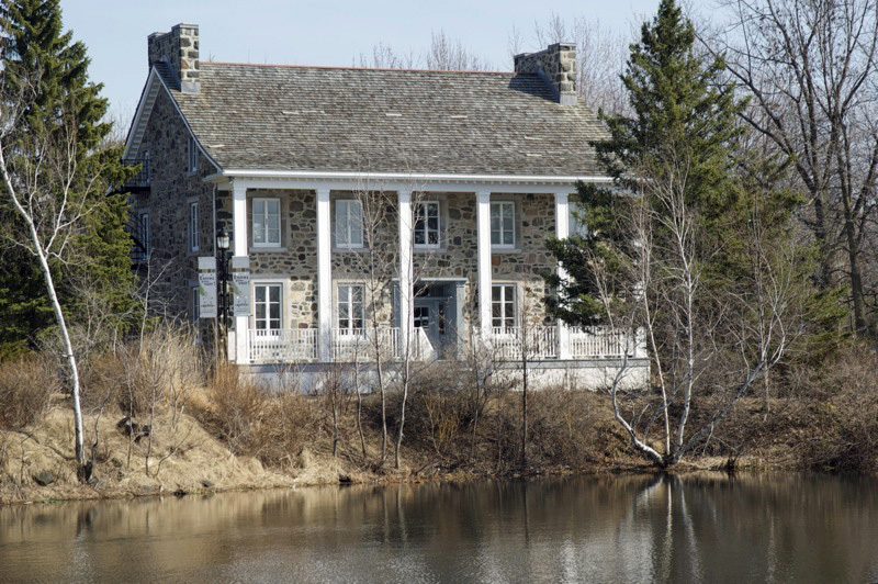 The Old Presbytery of Saint-Bruno-de-Montarville, standing on the shores of the village's lake, was constructed in 1851, near the village church on land donated by the seigneur de Montarville in 1842. The building was threatened with destruction after an new presbytery was built in 1960, but a local campaign protested. Instead, the building was classed as a monument historique national in 1966 and was disassembled stone by stone and reconstructed on it's present location, officially inaugurated on 18 February, 1967. It has been used since that time as a art gallery and banquet hall for public rentals and official civic ceremonies.